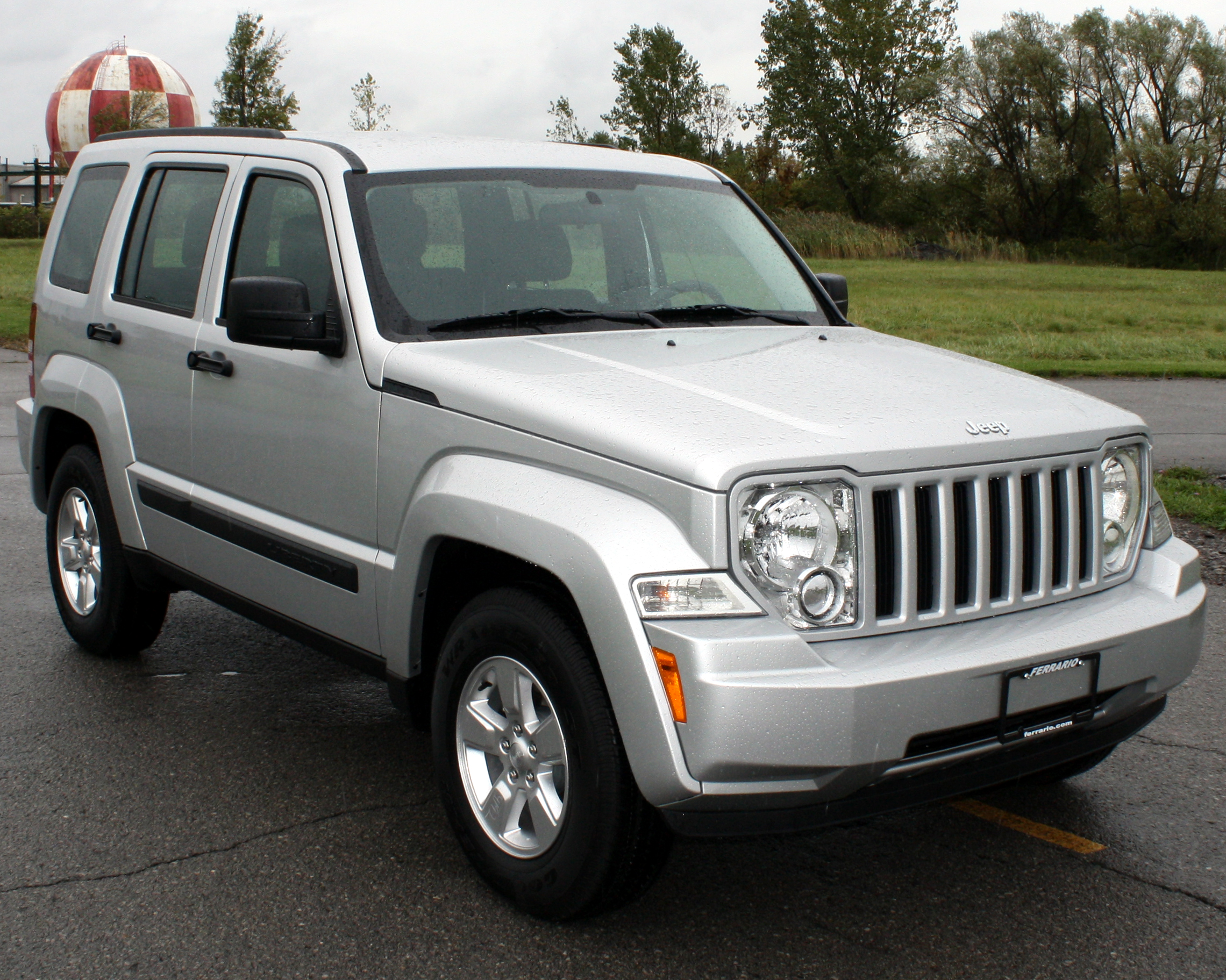 2012 Jeep Liberty photographed in USA.